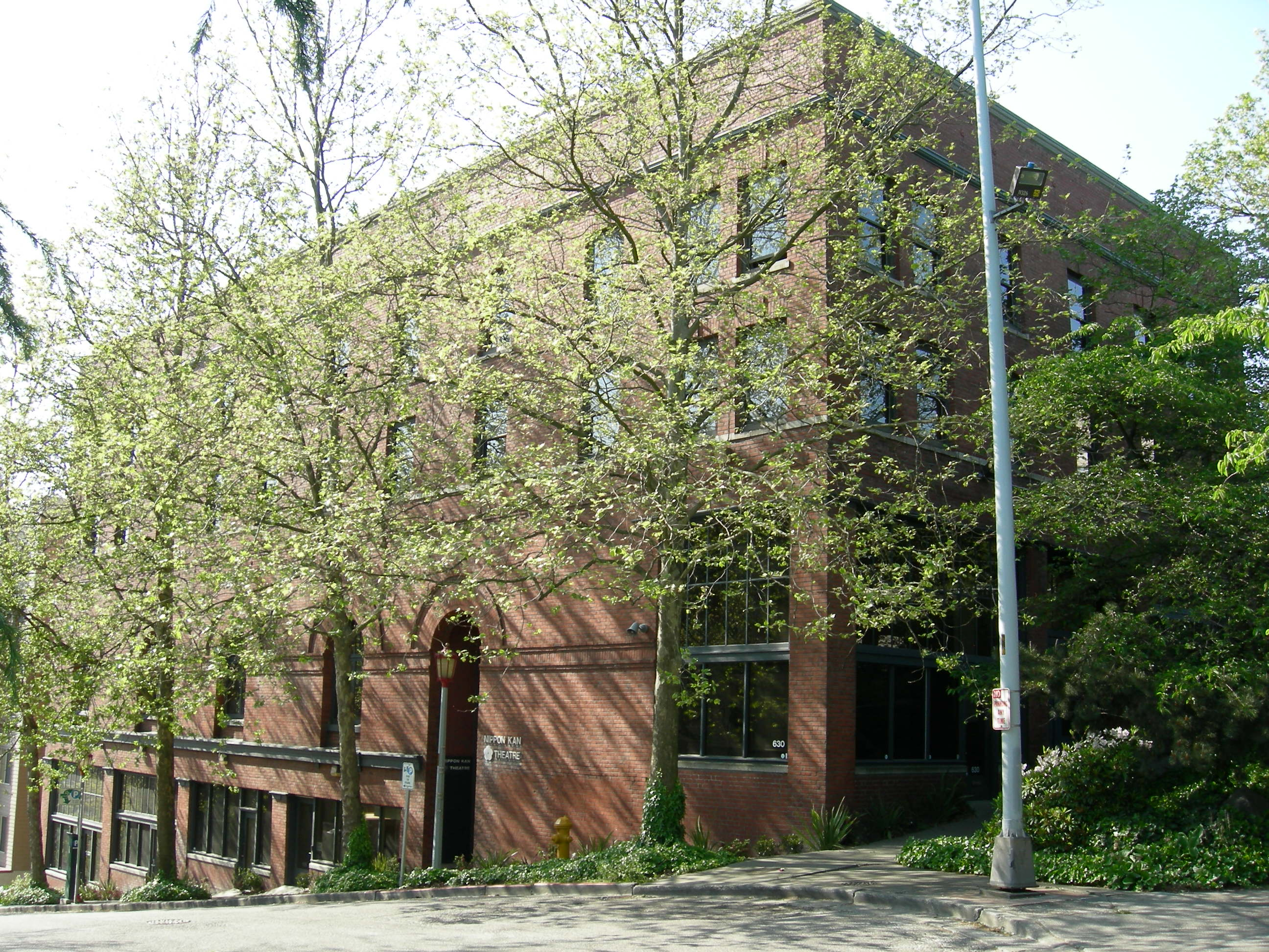 The Nippon Kan, formerly Seattle's Japanese theater, near the north edge of the International District, Seattle, Washington. Listed on the National Register of Historic Places, ID #78002754. Now home to a legal messenger company.